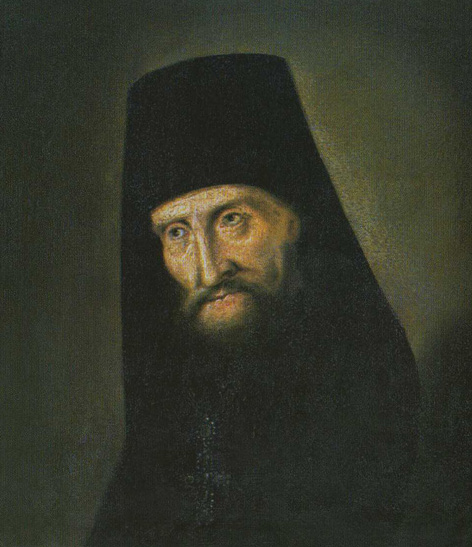 Amphilohij, grave's monk from Spaso-Jakovlevsky Monastery.